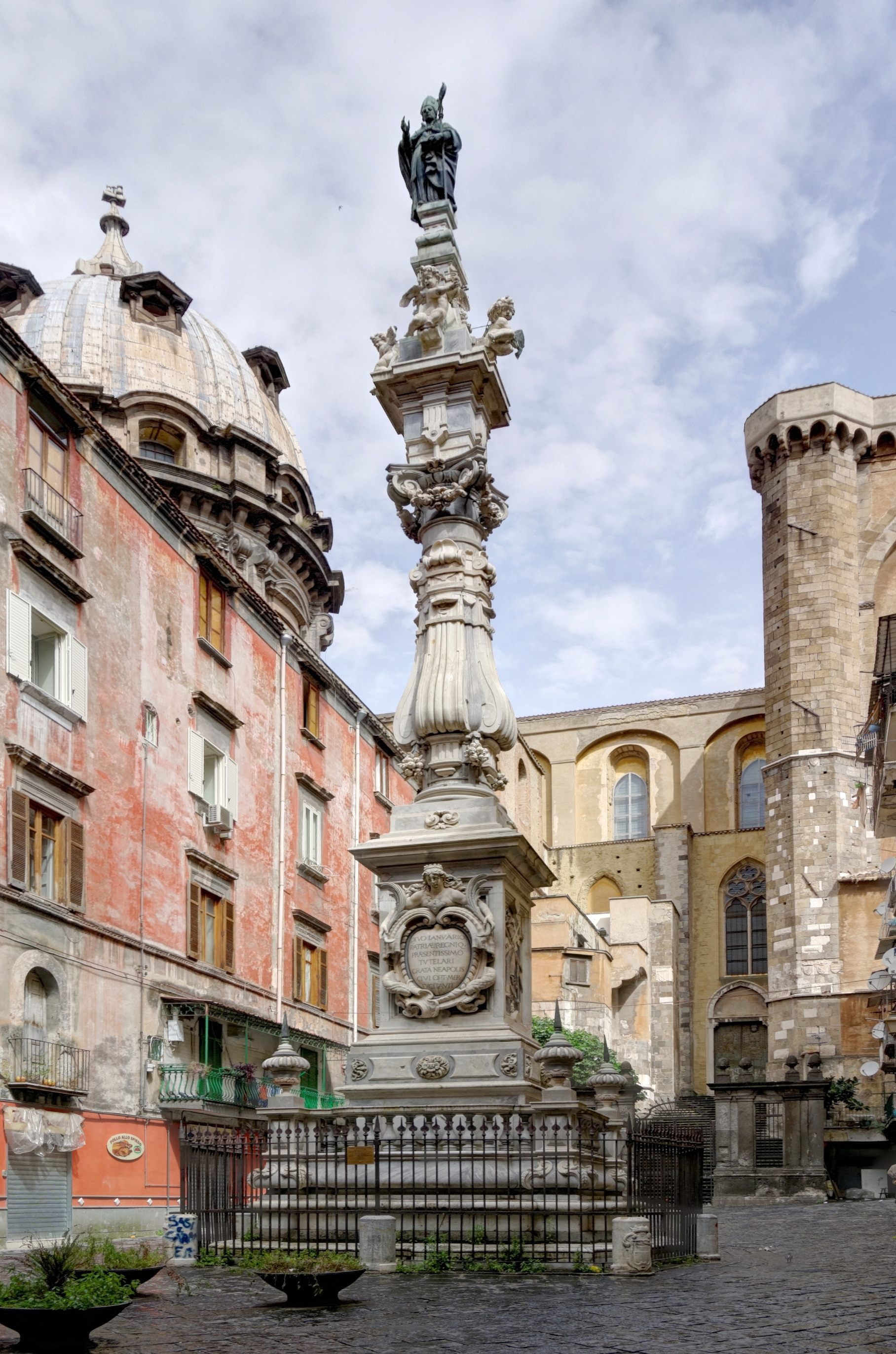 Naples, Via Tribunali, Piazza Sisto Riario Sforza, Guglia di San Gennaro